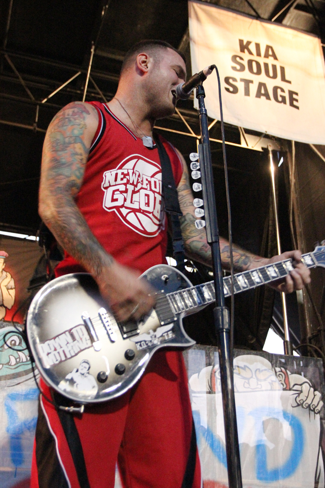 Chad Gilbert performs with New Found Glory during Warped Tour 2012 in Montage Mountain, Scranton, PA